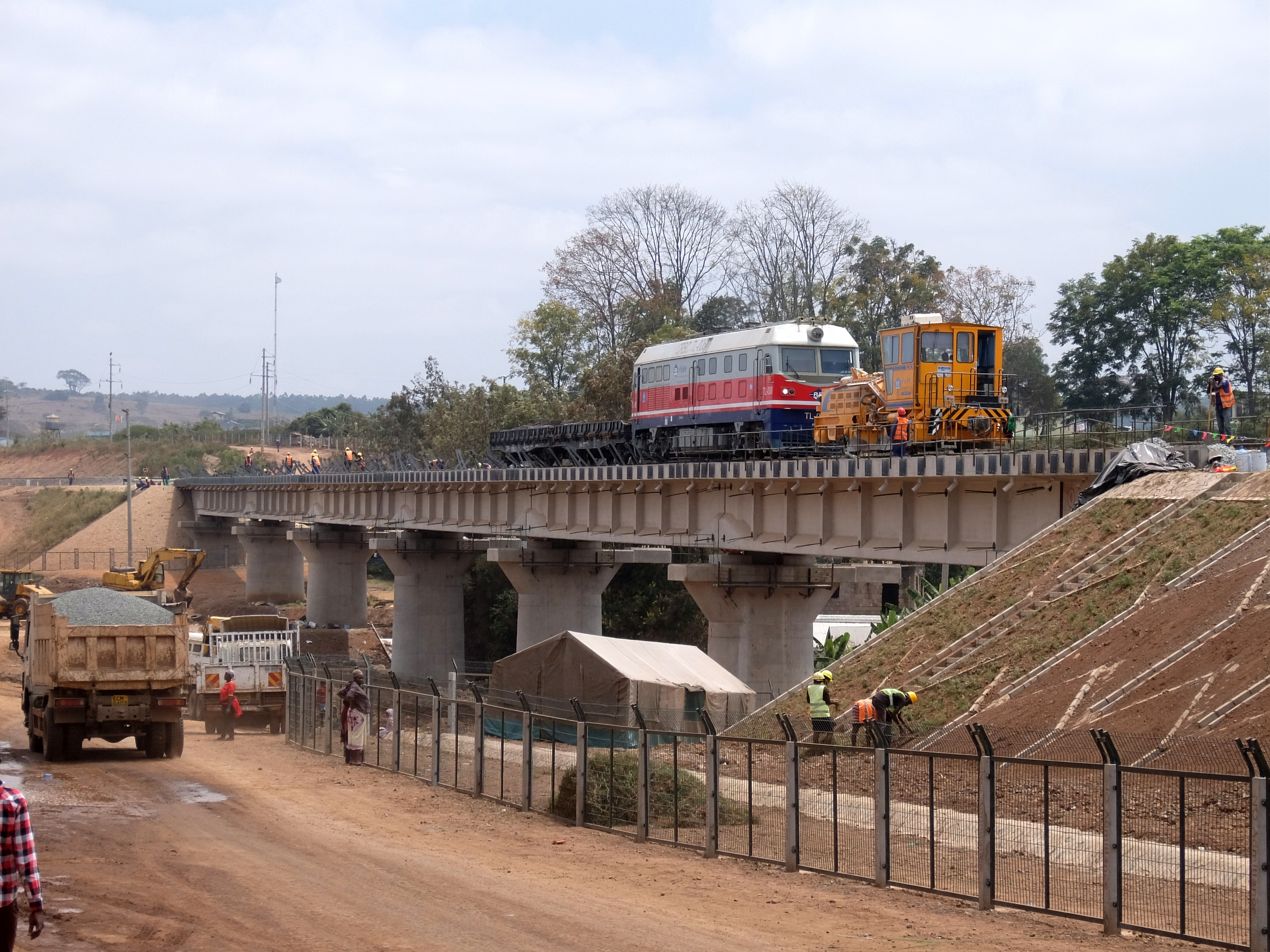 Construction of the SGR railway tracks on the bridge crossing Ngong Road, near Karen and Ngong.